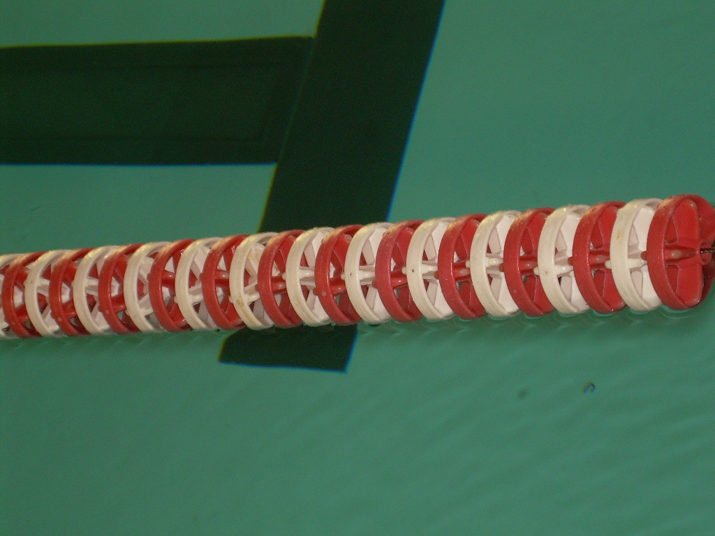 From competitive swimming pool